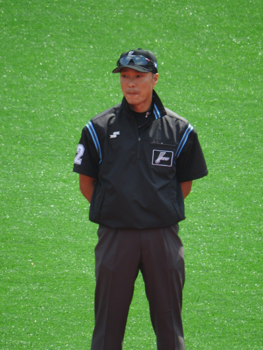 umpire of NPB.